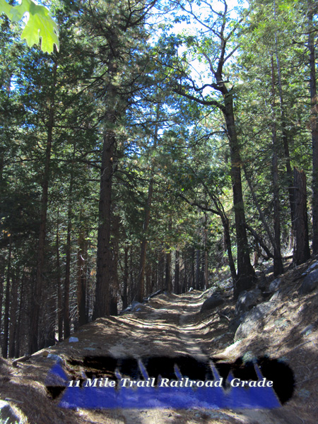 The 11 mile trail was an wagon trail originally and was converted to a railroad grade in the late 1800s. Today, it is an access road to the old Wawona Road as well as a hiking trail. The old railroad bed can still be seen.